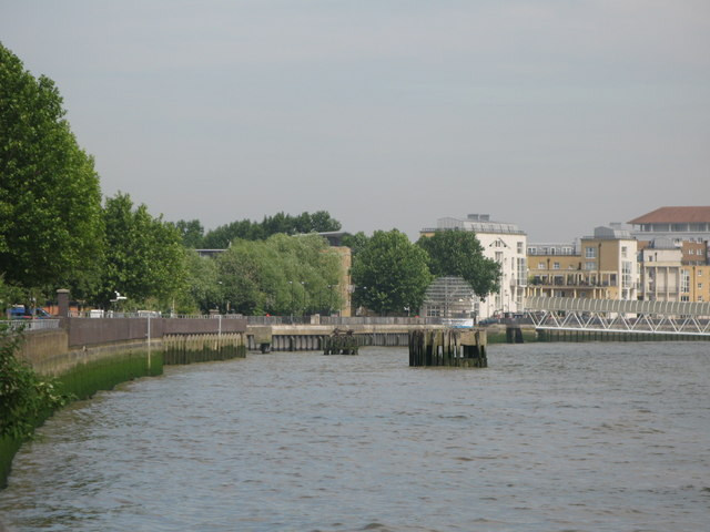 Limehouse Reach (4) Photo taken from Deptford Strand in TQ3678.